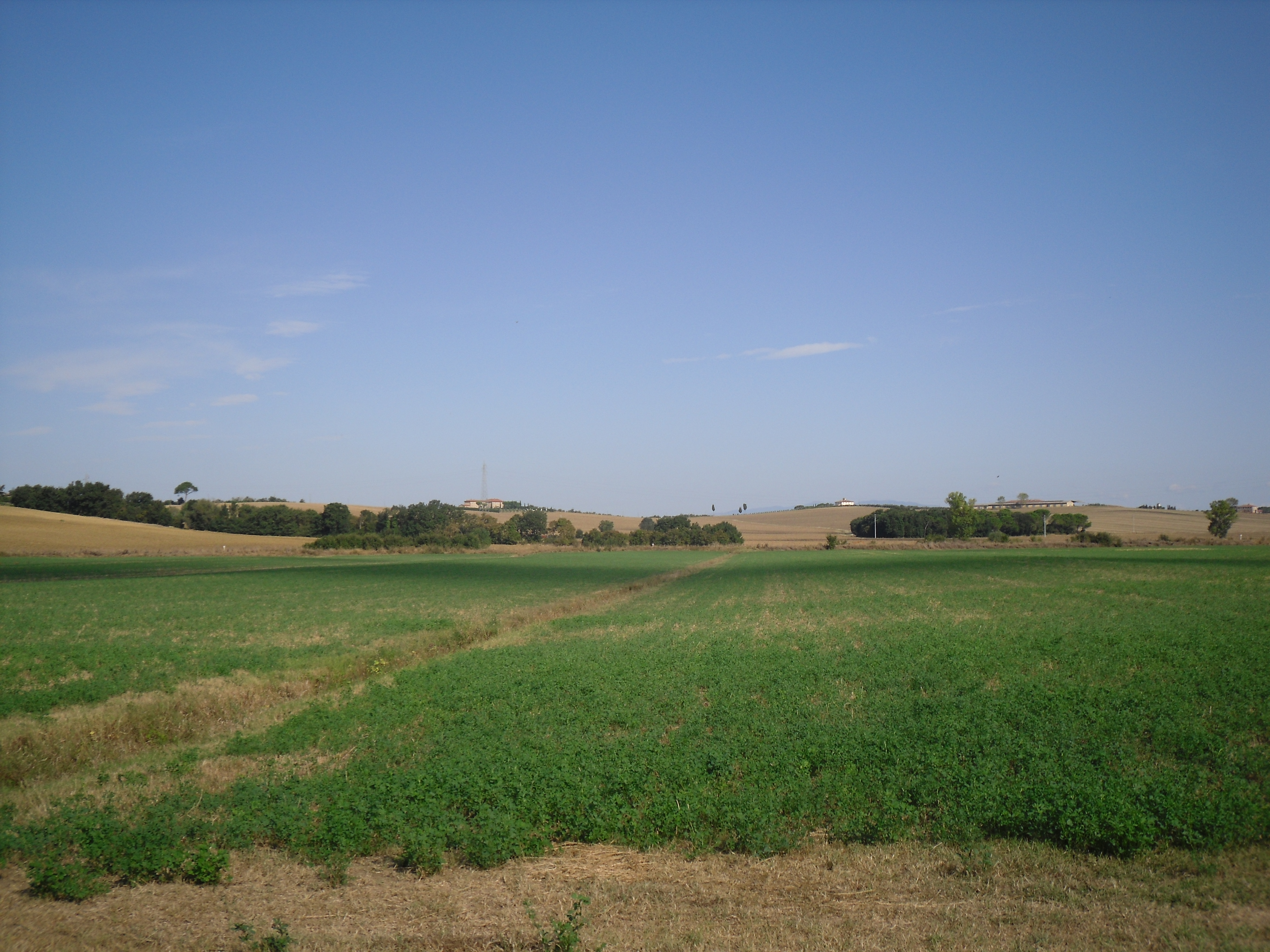 Alfalfa (medicago sativa) field near Brolio in Val di Chiana, Tuscany, Italy.